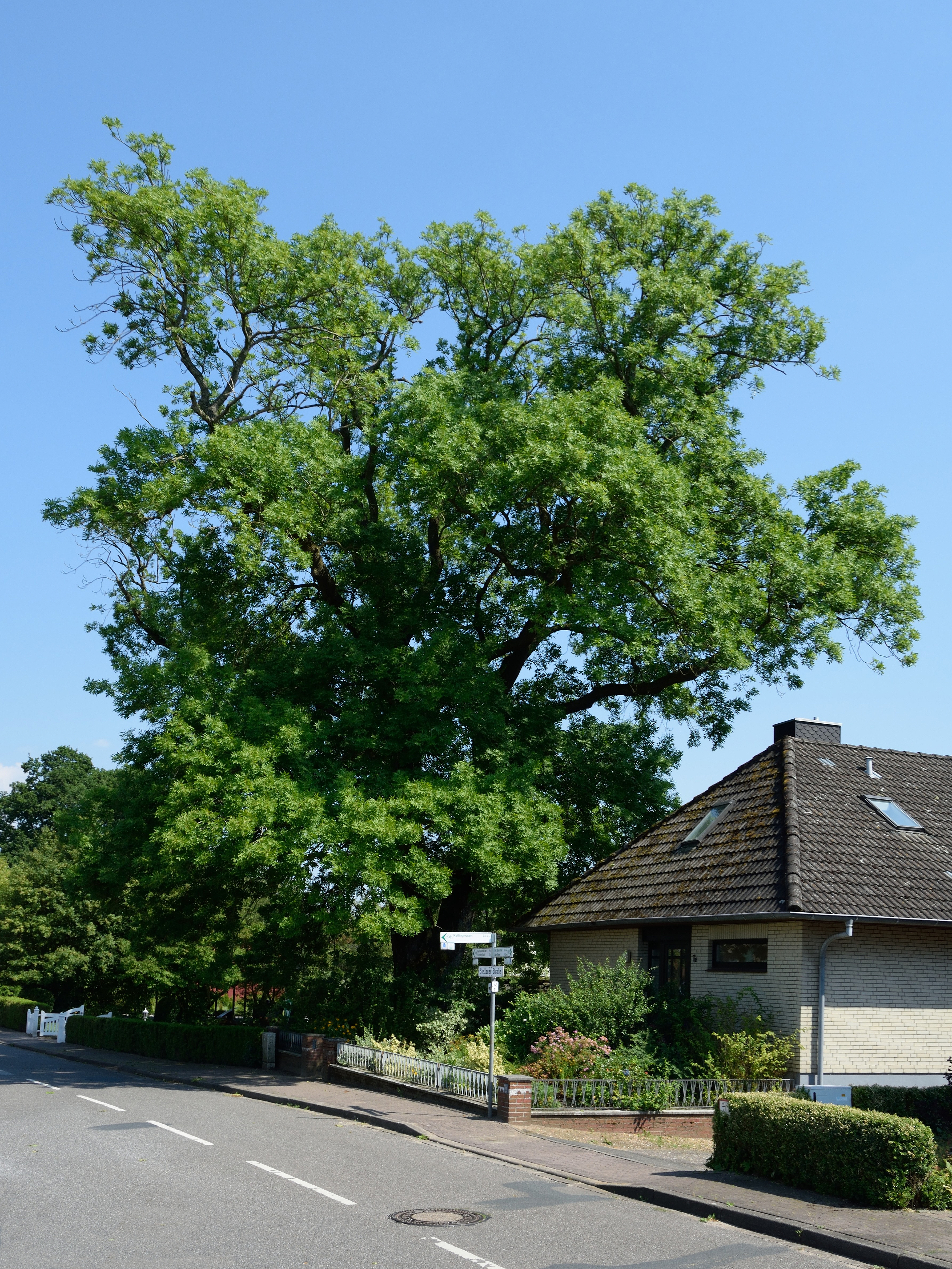 Natural monument (No. 27) in the Steinburg district in Wrist.